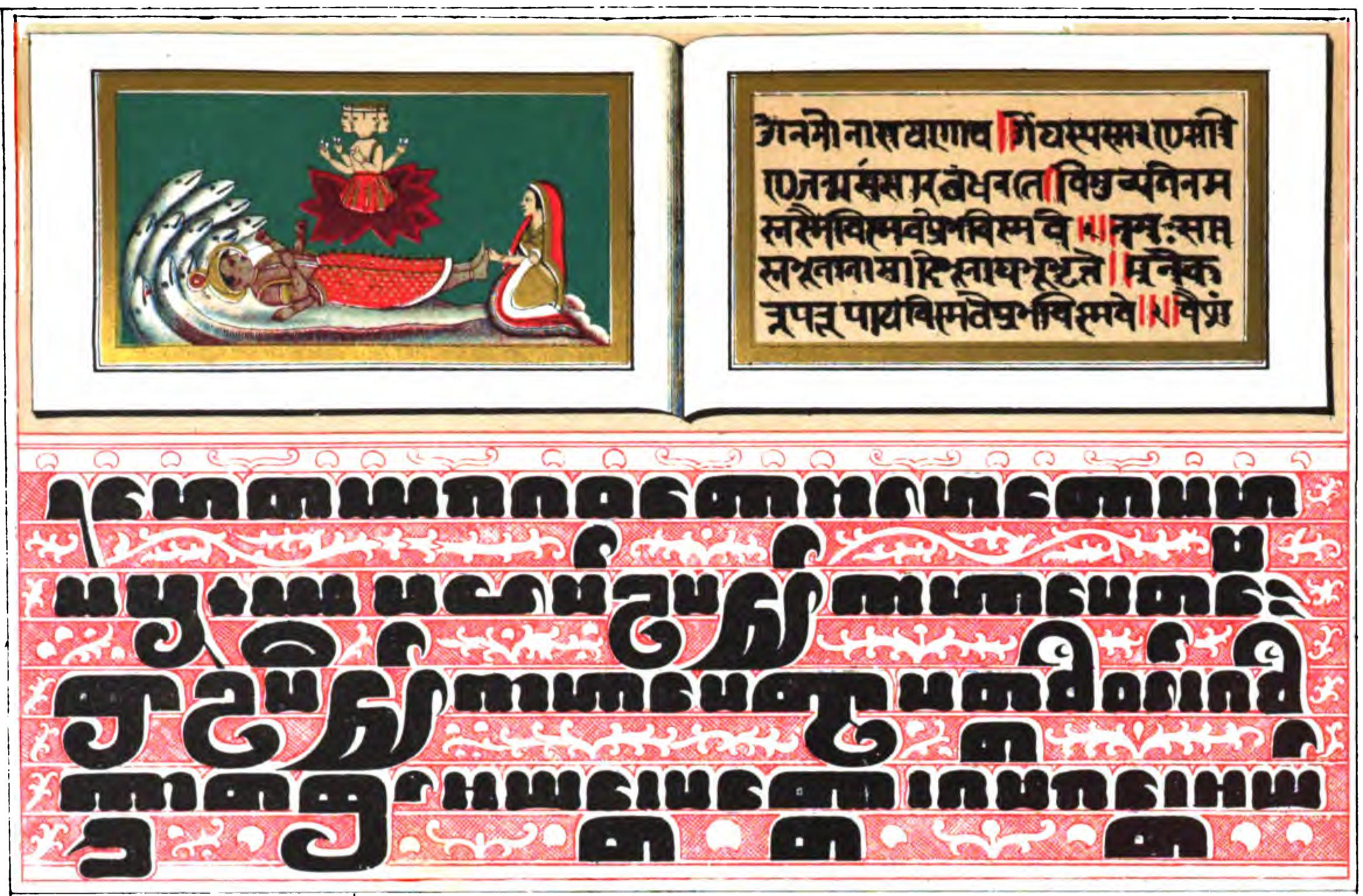 Top: a text in Sanskrit (praise of Vishnu), written in devanagari. It reads: ओं नमो नारायणाय ॥ ओं यस्परस्मरणमात्रे / ण जन्मसंसारबंधनात ॥ विमुच्यते नम / स्तस्मै विष्णवे प्रभविष्णवे ॥ नमः सम / स्तभूतानामादिभूताय भूभृत्ते ॥ अनेक / रूपरूपायो विष्णवे प्रभविष्णवे ॥ वैशं (cf. Faulmann, p.469f.) Bottom: a text in Pali from a Buddhist ceremonial scripture called "Kammuwa" from Burma (probably in old Mon scipt). Transcription: Namo tasa bhagavato arahato sammāsam buddhasa. paṭhamaṃ upajjaṃ gāhāpetabbo upajjaṃ gāhāpetva pattacivaraṃ acikkhitabbaṃ. Ayante patto, āma bhante. Ayaṃ (saṃghati, āmabhante). Plate 10 from C. Faulmann: Illustrirte Geschichte der Schrift (1880). For the script, cf. pp.485f. oft that book.